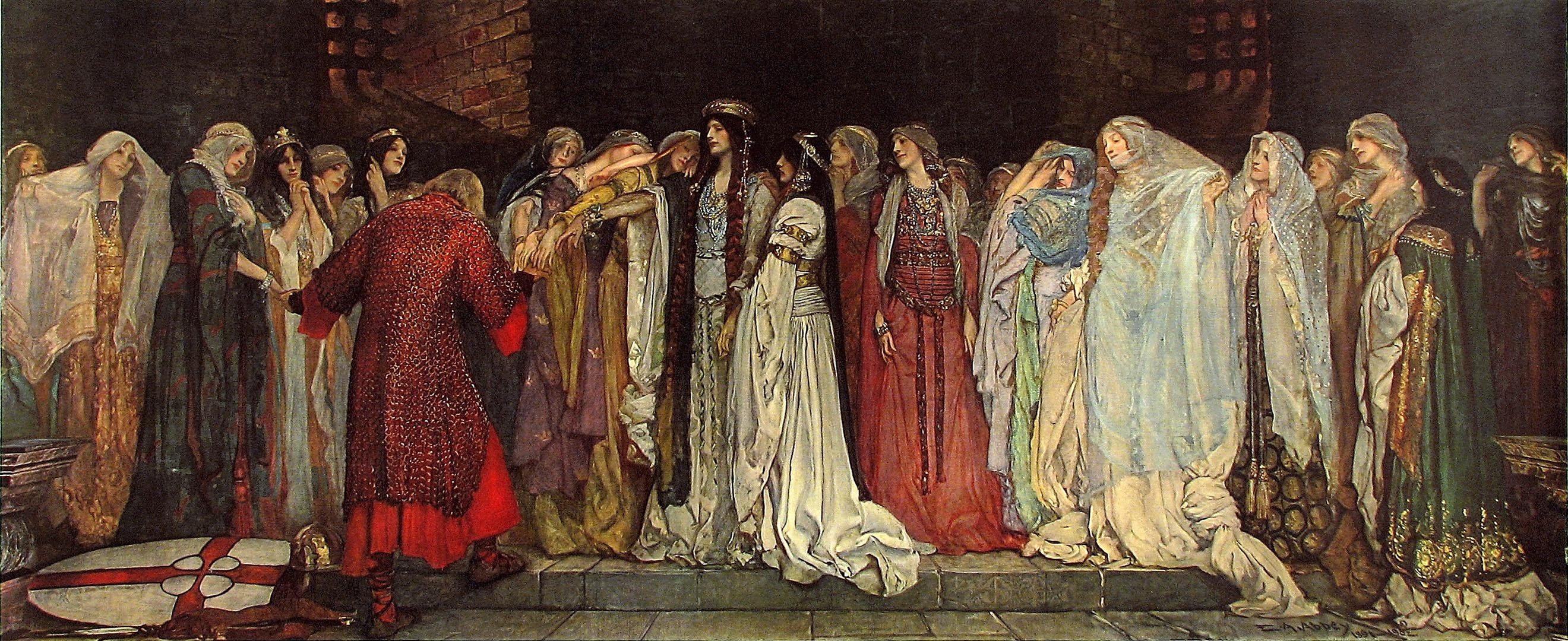 Painting "Castle of Maidens" (AKA “Galahad at the Castle of Maidens”) by Edwin Austin Abbey(American, 1852-1911) The size with wide margins is 22-1/4” x 49-1/2”, Image size is 20” x 48” OOP (Out-of-Print) Large Version "Arcolor" Collotype Litho (not a newer modern reproduction) Vintage & Ultra Rare Litho, Excellent Rare+ condition, Never framed, Raymond & Rissling, Inc., © R & R, Published by Raymond & Rissling, Inc. 40 E. 49th St., New York, Arcolor Print, Number 9, published on January 15, 1931, Printed in Austria